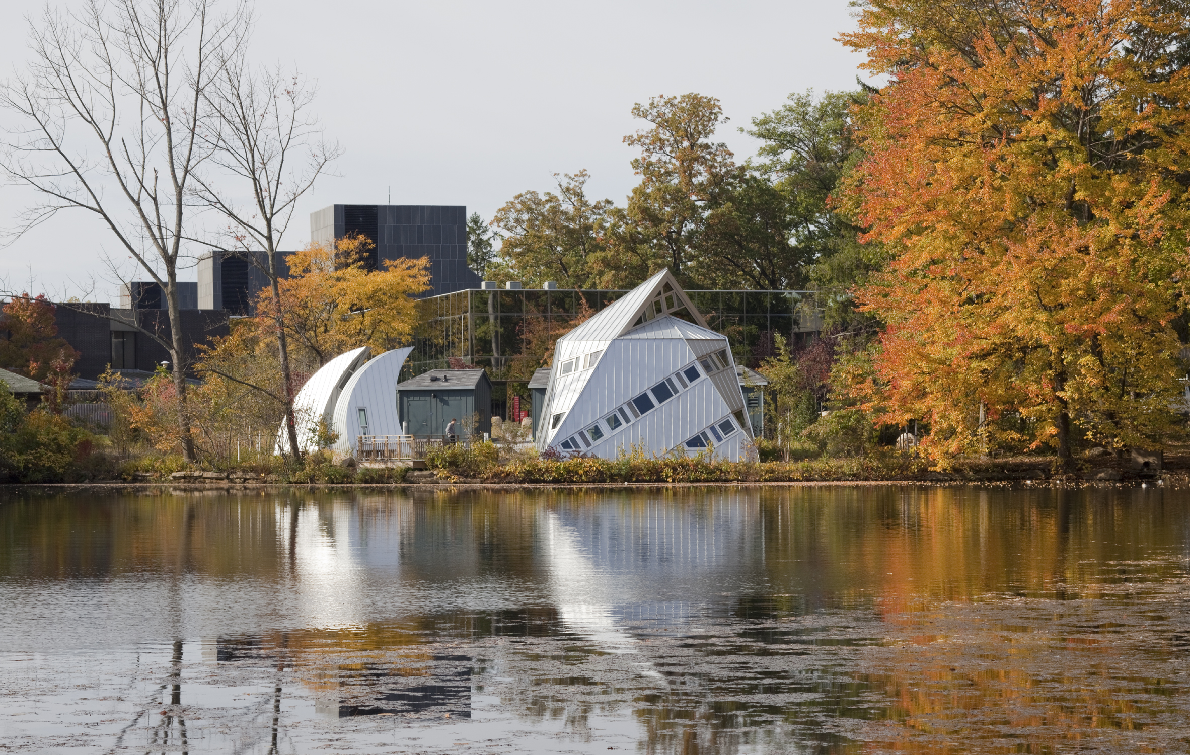 In an effort to bring tranquility and spiritual peace to the day-to-day routine of the campus community, the center facilitates formal group services as well as individual meditation and contemplation. The center’s design is a testament to the acceptance of varied spiritual beliefs and multicultural openness. The faceted exterior of the main space is evocative of an ancient tent, a space hospitable to personal contemplation. Narrow bands of glass wrap the sides of the structure providing framed views of the pastoral setting. A north facing clerestory offers illumination during the day or a glimpse of stars at night. Designed by Holzman Moss Bottino Architecture.